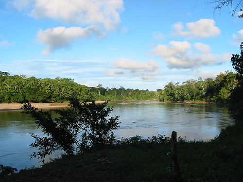 Rio Curaray